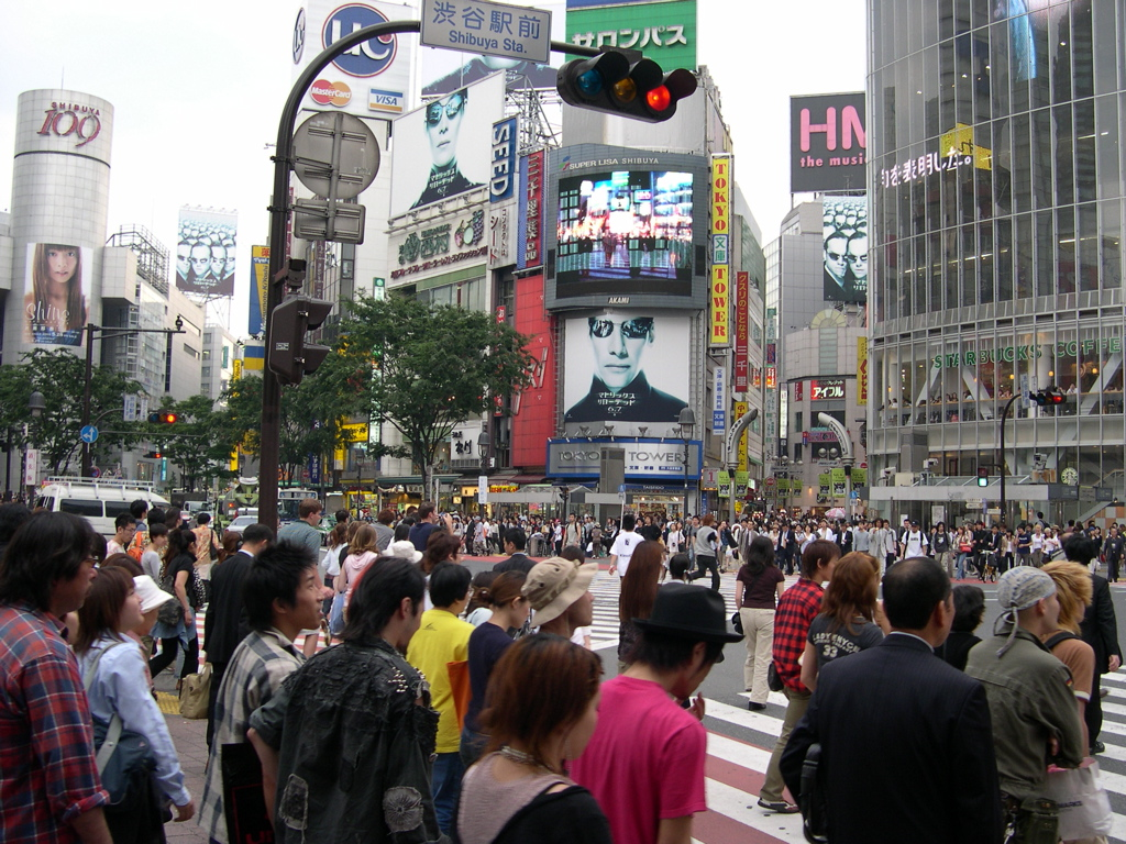 Shibuya Crossing in Tokyo, Japan.